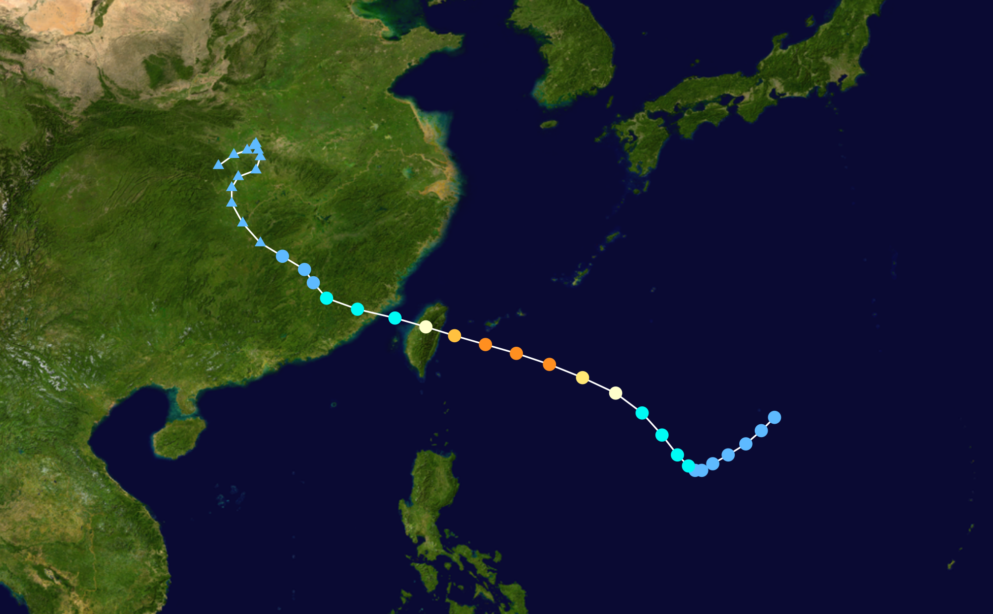 Typhoon Nina (1975) track. Uses the color scheme from the Saffir-Simpson Hurricane Scale.